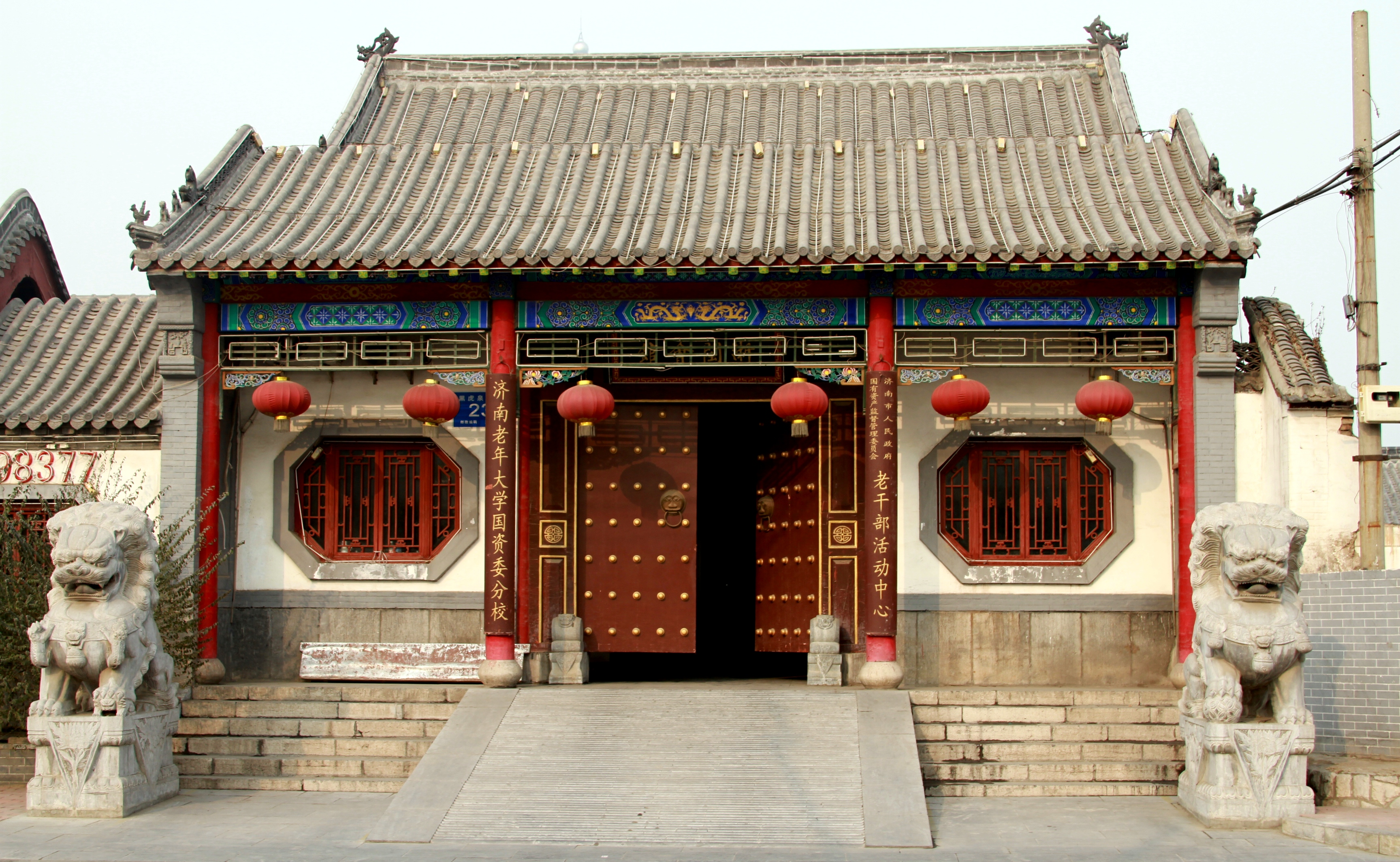 Photograph of the front entrance to the Zhejiang Fujian Meeting Hall in Jinan, Shandong, China in January 2010.